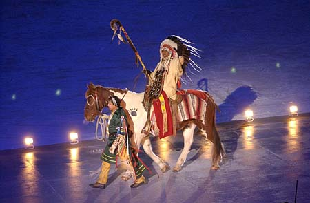 An American Indian Chief during the opening ceremony of the 2002 Olympic Winter Games on February 8, 2002, in Salt Lake City, Utah.